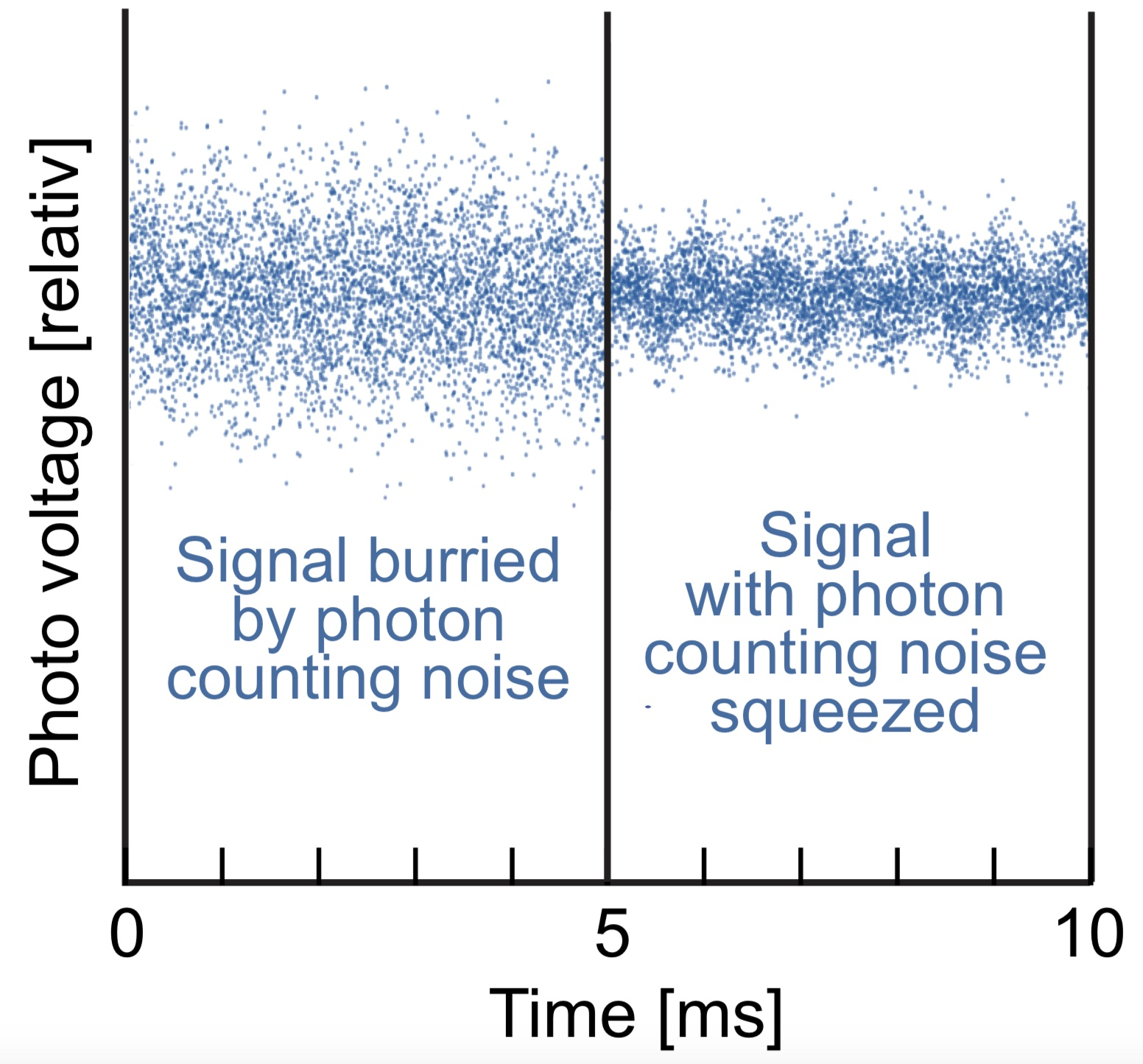 Fig. 3: Photo voltages of a photo diode detecting light.